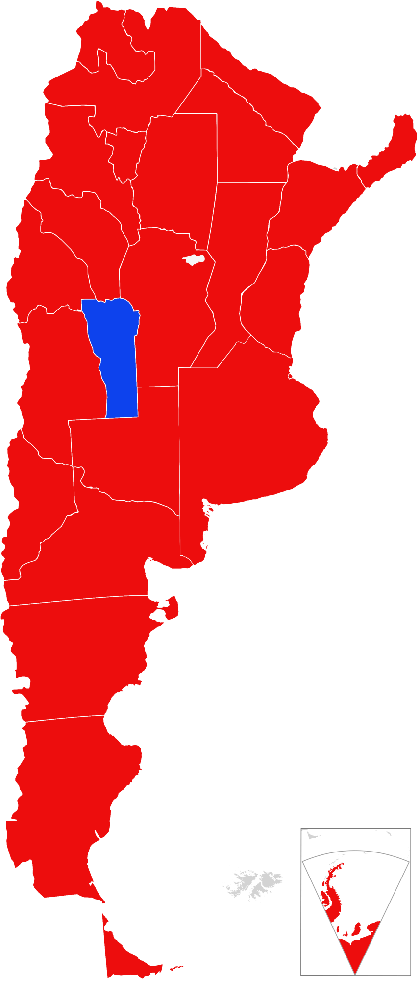 Map showing the time zones employed during daylight saving time in Argentina until 2010.